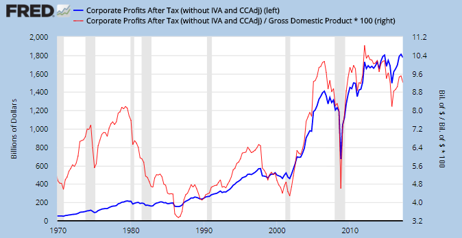 U.S. corporate profits from 1970 to Q2 2017, both in dollars and percent of GDP.